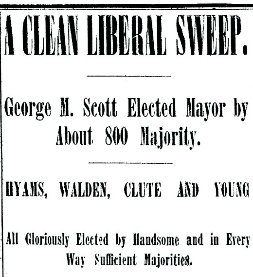 Headlines from the Tuesday, February 11, 1890 Salt Lake Tribune. The Liberal-sympathetic organ announces victory of the Liberal Party in the Salt Lake City mayoral race. This was the first time the Liberal Party had won Salt Lake, and the first time a non-Mormon mayor was elected.